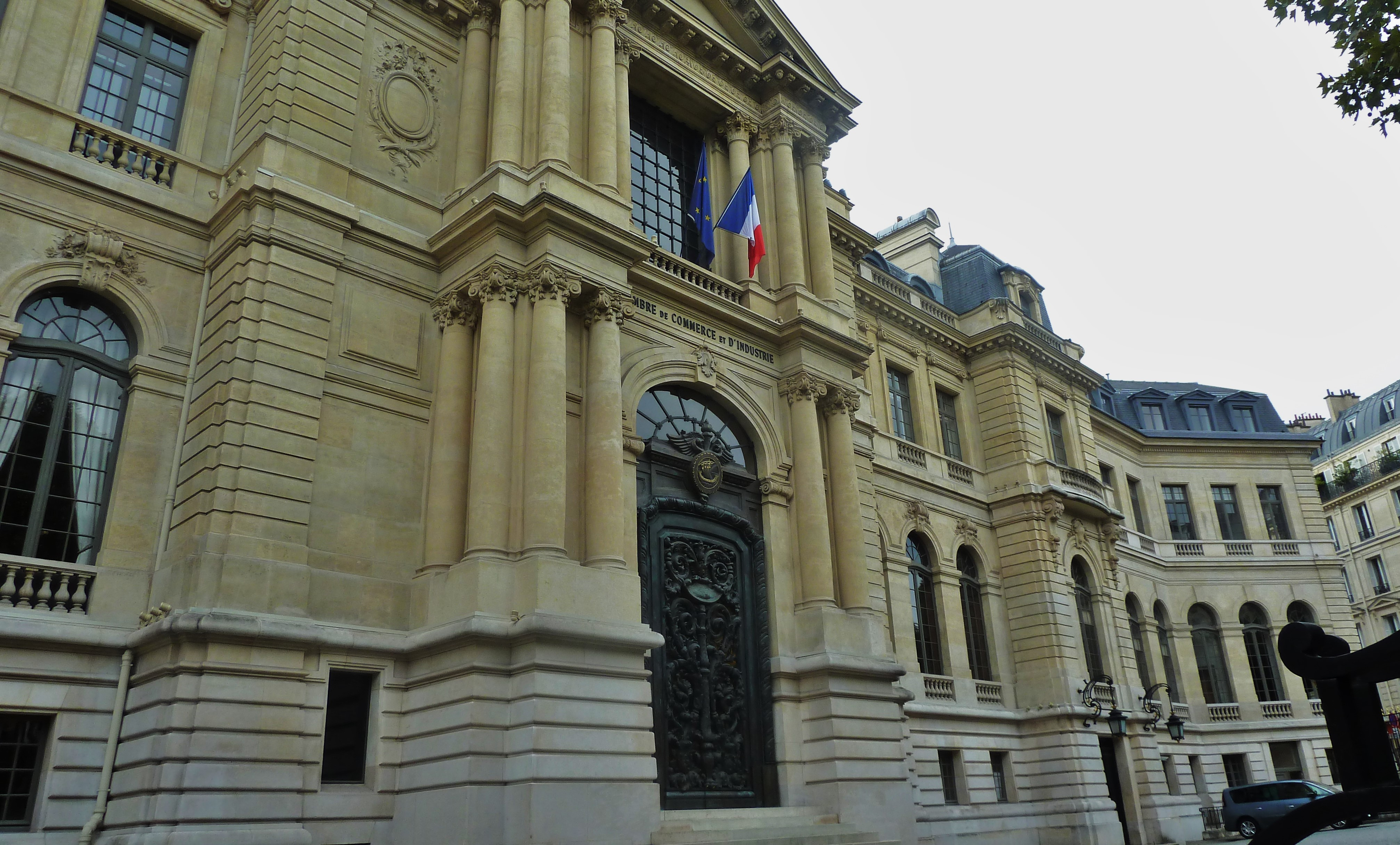 Avenue de Friedland - Handelskammer2 (Oktober 2016)